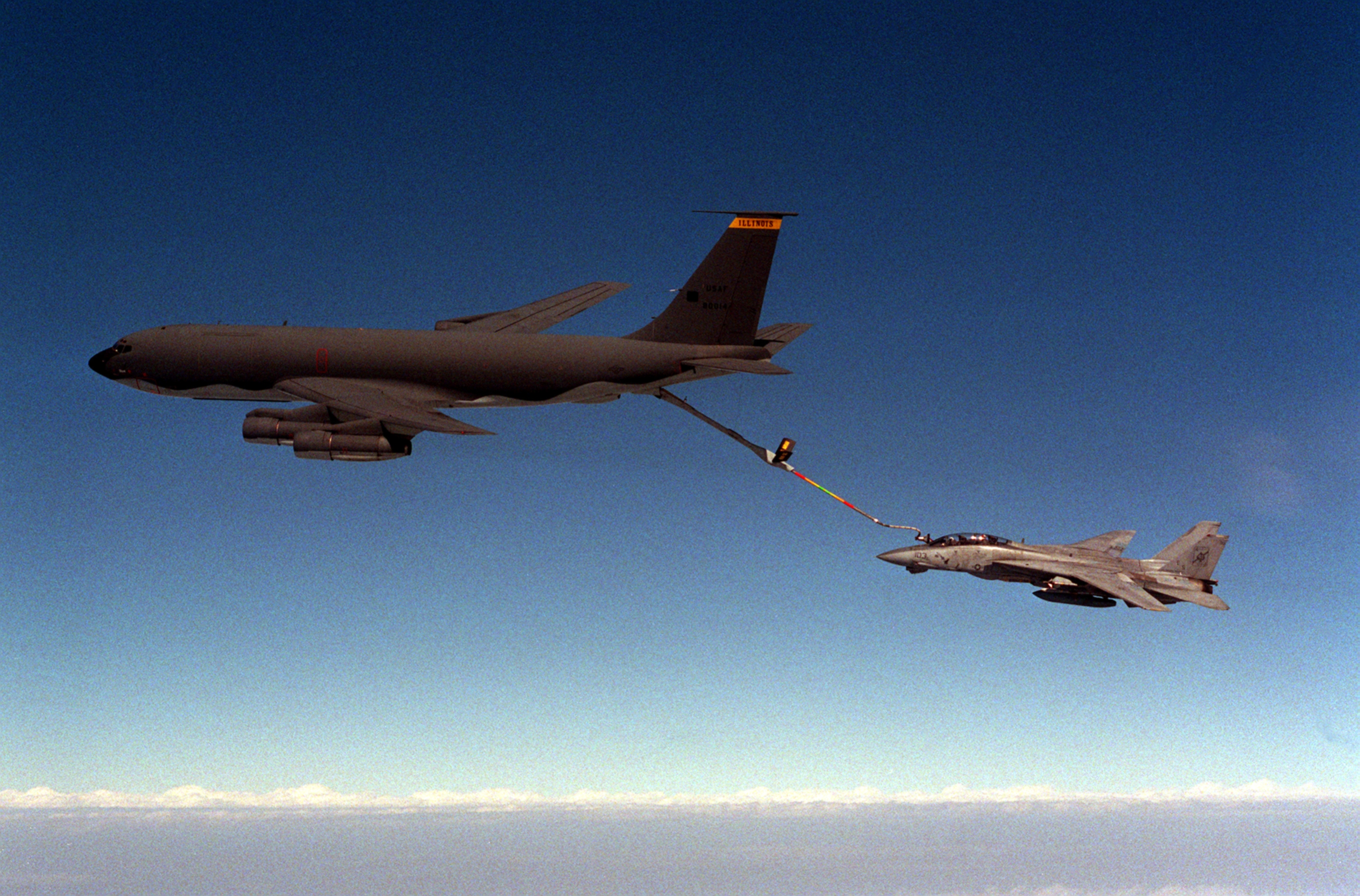 A U.S. Navy Grumman F-14A Tomcat from Fighter Squadron VF-41 Black Aces is refueled by a Boeing KC-135E Stratotanker from the 108th Air Refueling Squadron, 126th Aerial Refueling Wing, Illinois Air National Guard, during "Operation Desert Storm". VF-41 was assigned to Carrier Air Wing 8 (CVW-8) aboard the aircraft carrier USS Theodore Roosevelt (CVN-71) from 28 December 1990 to 28 June 1991.